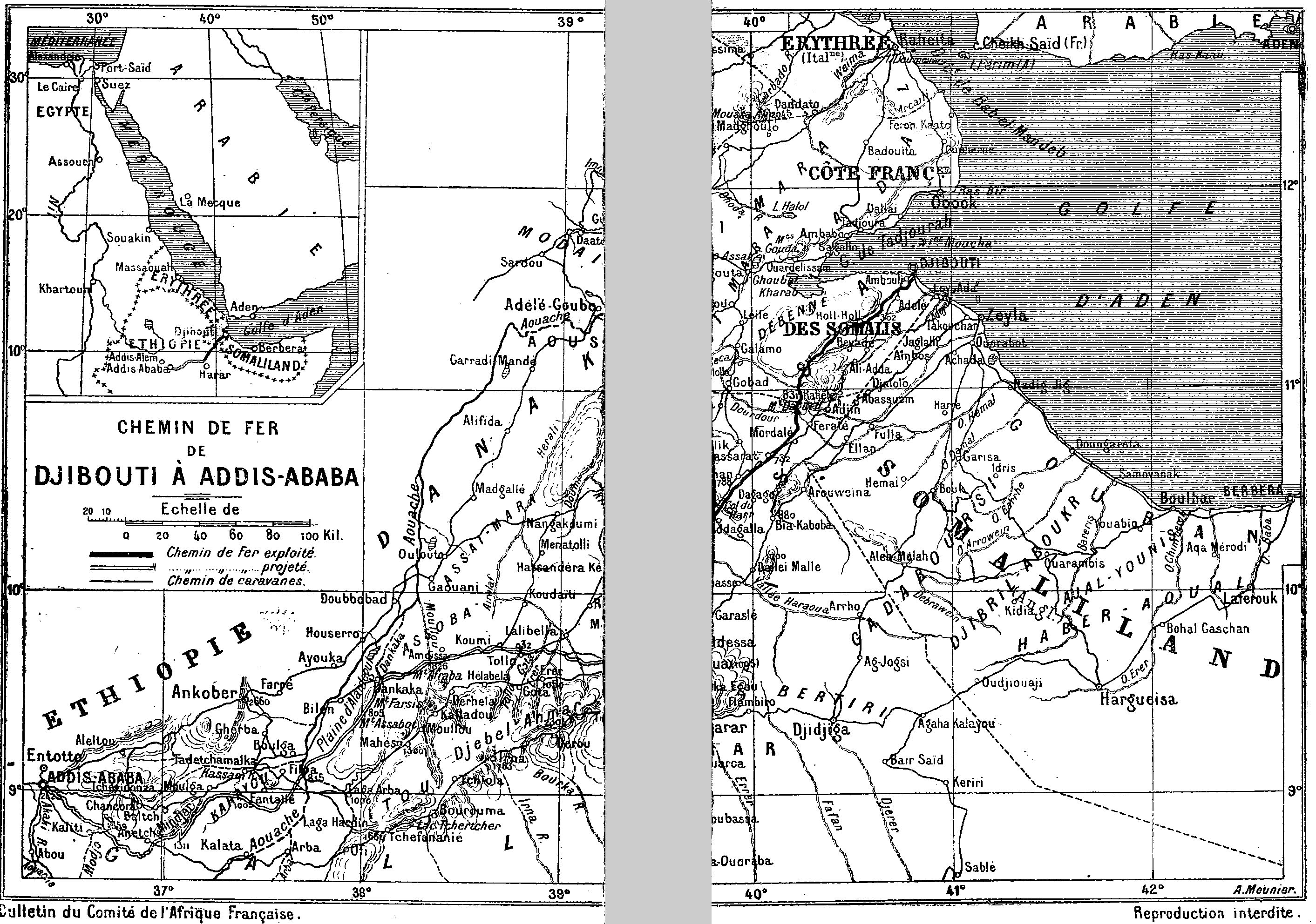 Map of the diboutian train line